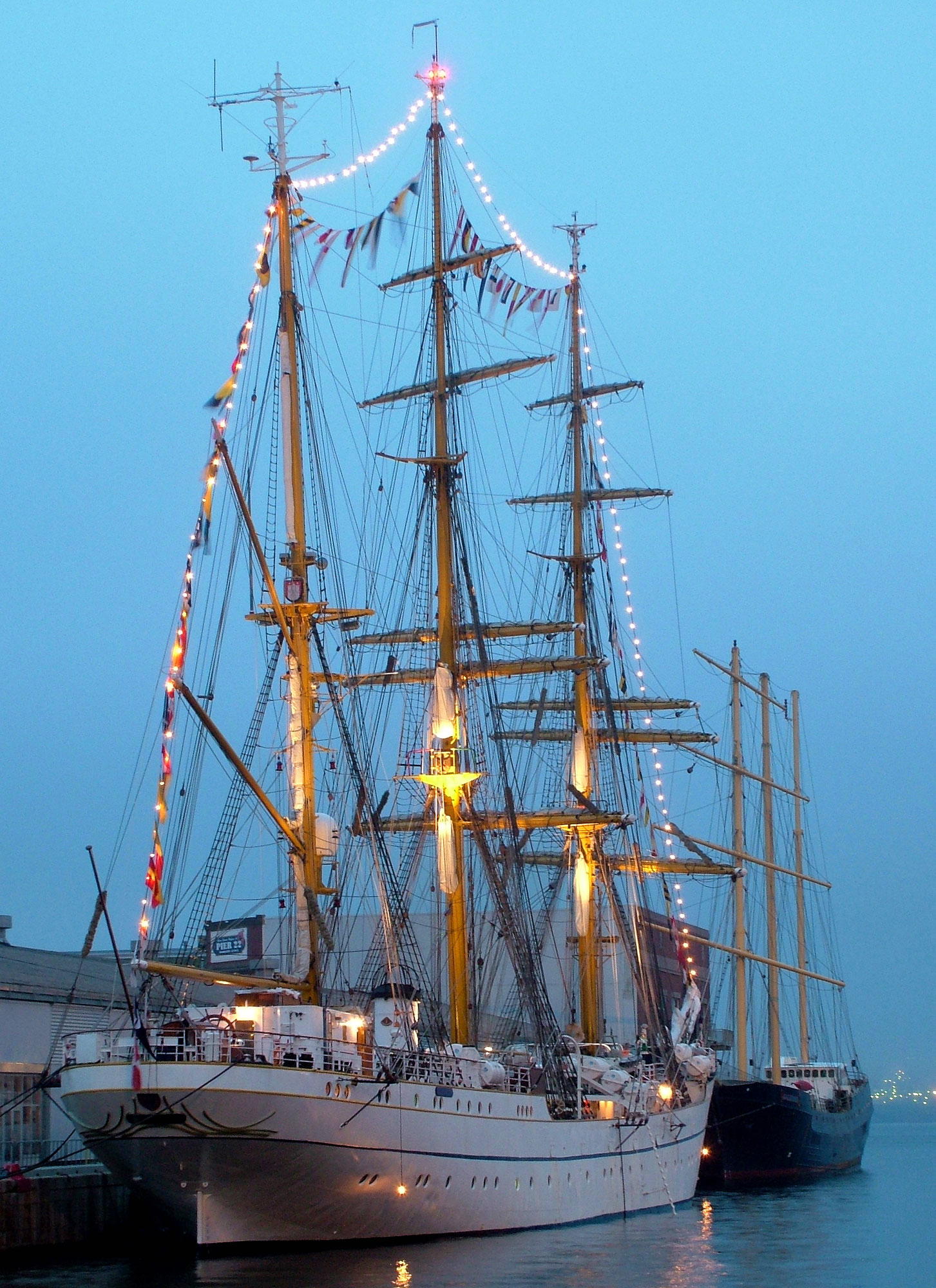 Framed by the colourful German flag, the complicated rigging of the Gorch Fock II makes an interesting study against Halifax’s clear blue sky.